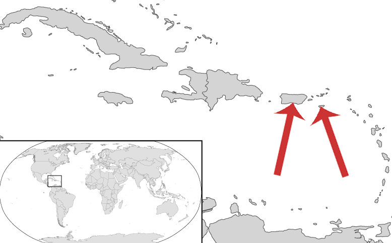 Saint Croix Macaw find locations.[1] With inset to indicate area in the world. Older version was not svg, so uploaded new to avoid confusion.